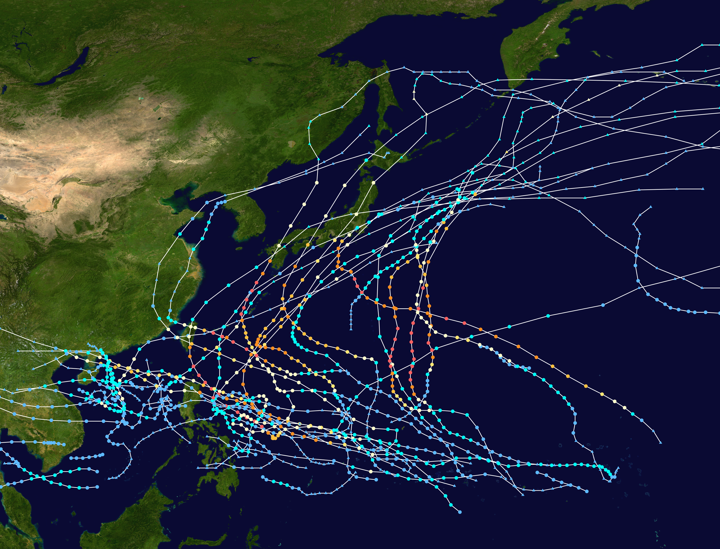 This map shows the tracks of all tropical cyclones in the 1965 Pacific typhoon season. The points show the location of each storm at 6-hour intervals. The colour represents the storm's maximum sustained wind speeds as classified in the Saffir-Simpson Hurricane Scale (see below), and the shape of the data points represent the nature of the storm. Saffir–Simpson hurricane wind scale Tropical depression≤38 mph≤62 km/h Category 3111–129 mph178–208 km/h Tropical storm39–73 mph63–118 km/h Category 4130–156 mph209–251 km/h Category 174–95 mph119–153 km/h Category 5≥157 mph≥252 km/h Category 296–110 mph154–177 km/h Unknown Storm typeTropical cycloneSubtropical cycloneExtratropical cyclone / Remnant low / Tropical disturbance